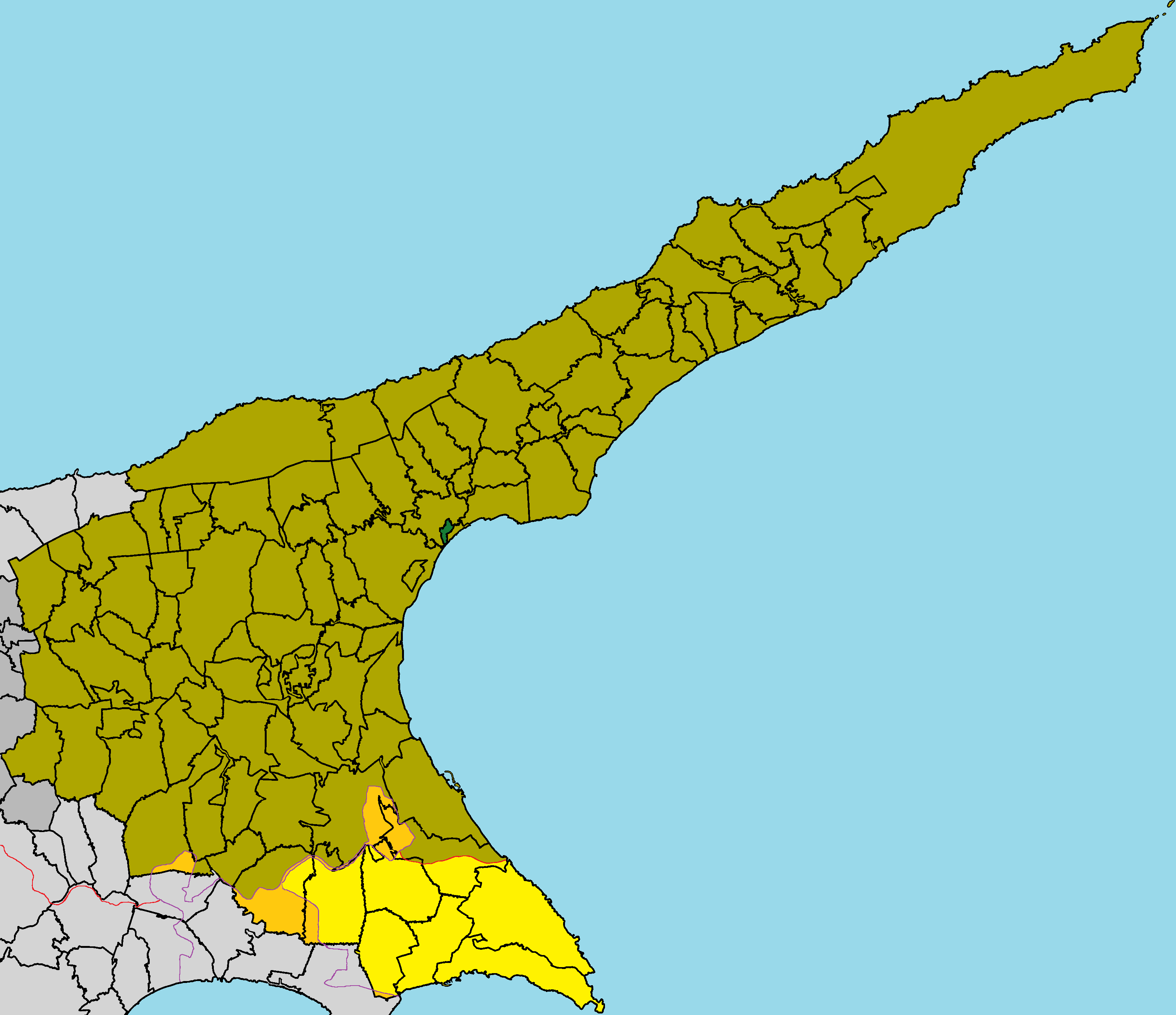 Monarga in Famagusta District (de jure).